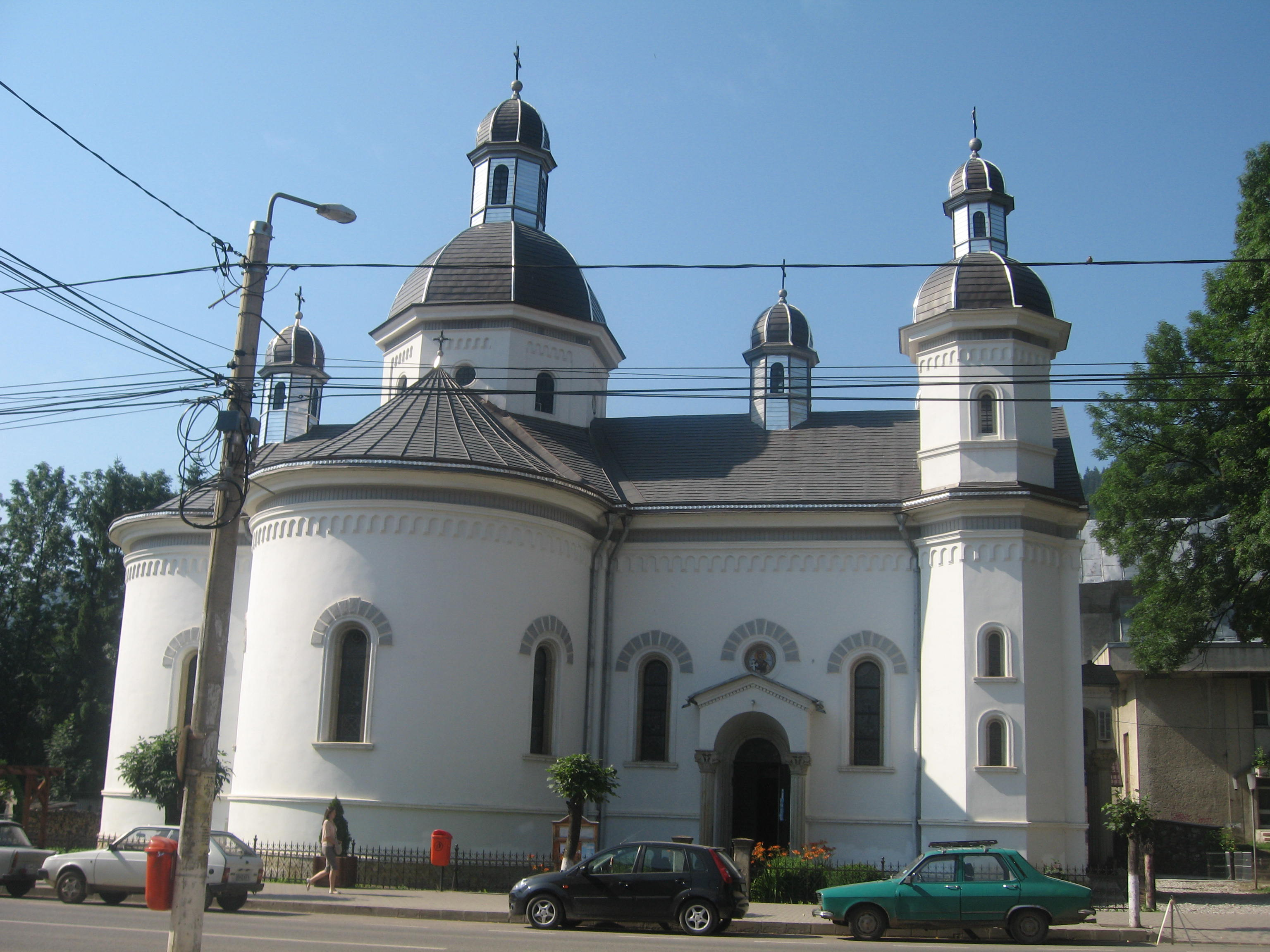 St. Nicholas Church in Câmpulung Moldovenesc, Romania